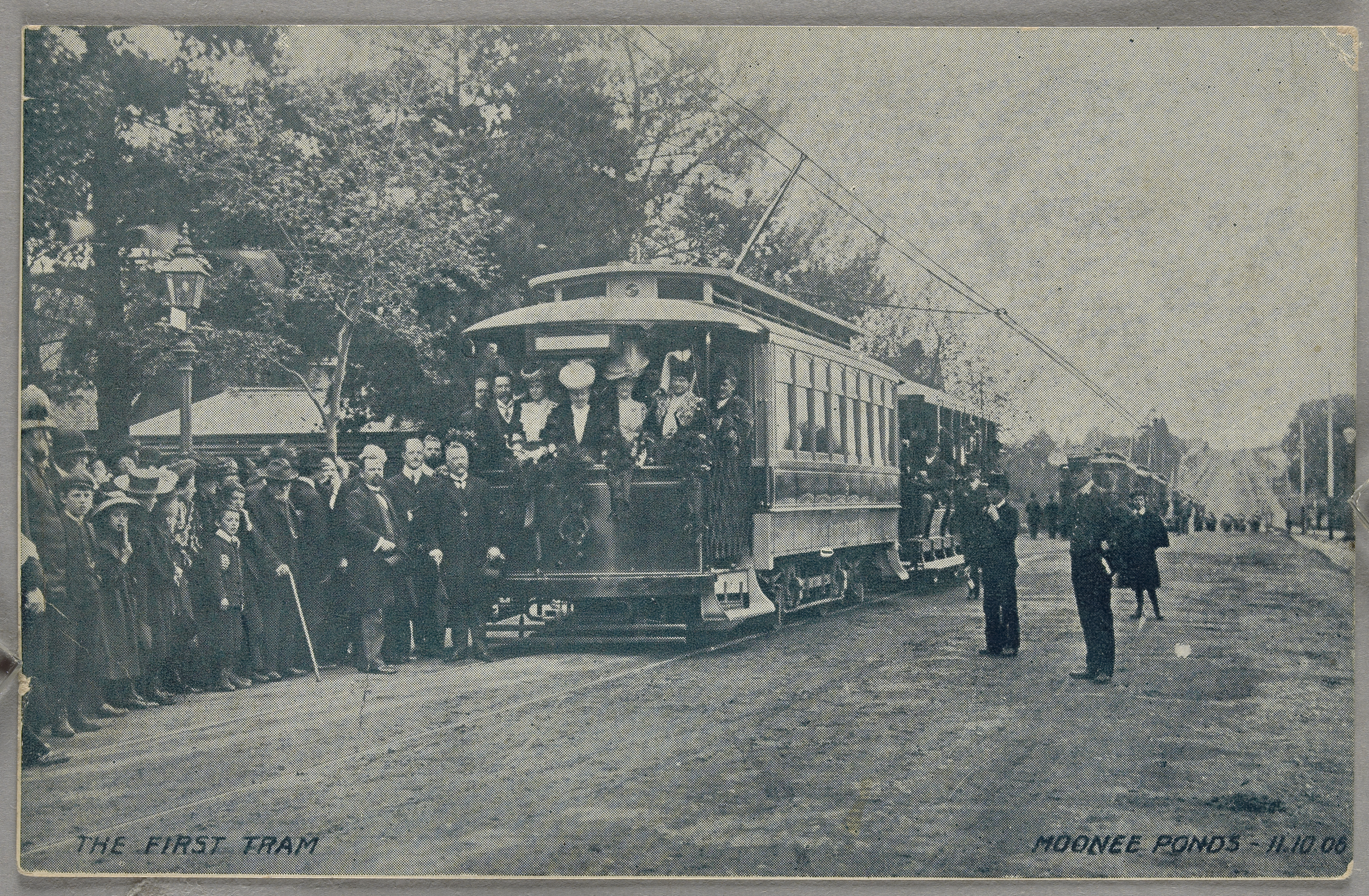 First North Melbourne Electric Tramway and Lighting Company tram, 11 October 1906.